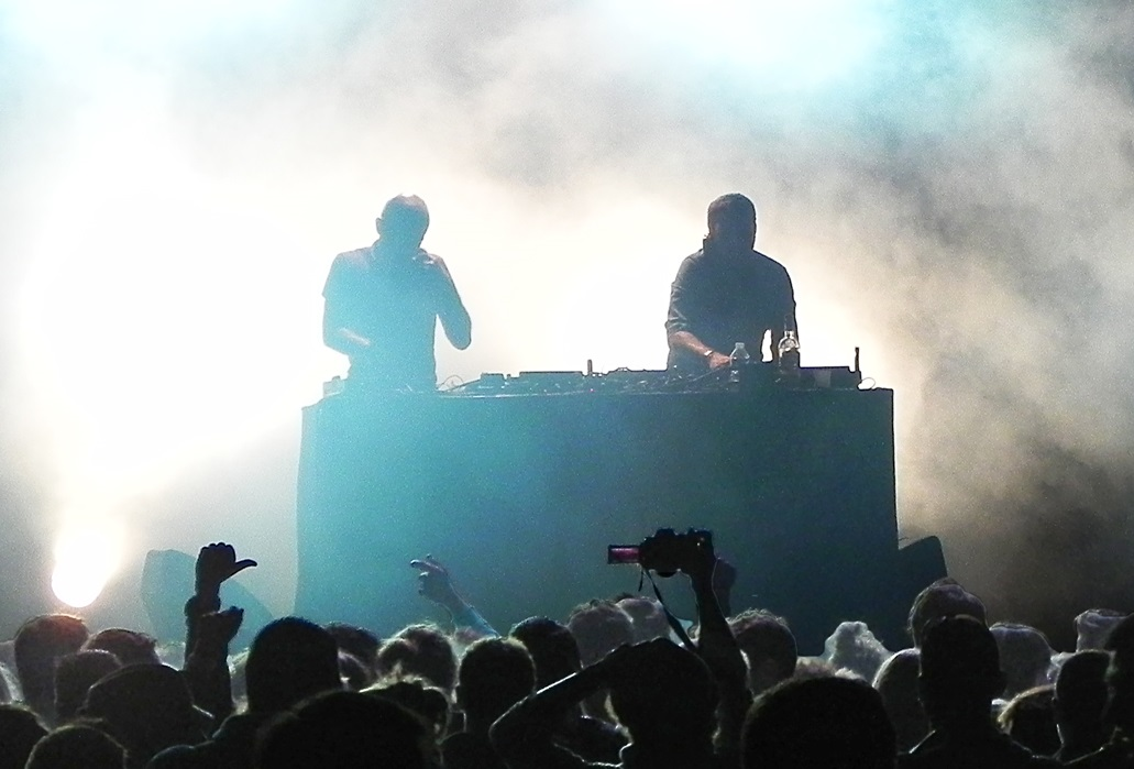 French house duo Cassius performing live at the 2012 Festival RockAdel in Poitiers, France.